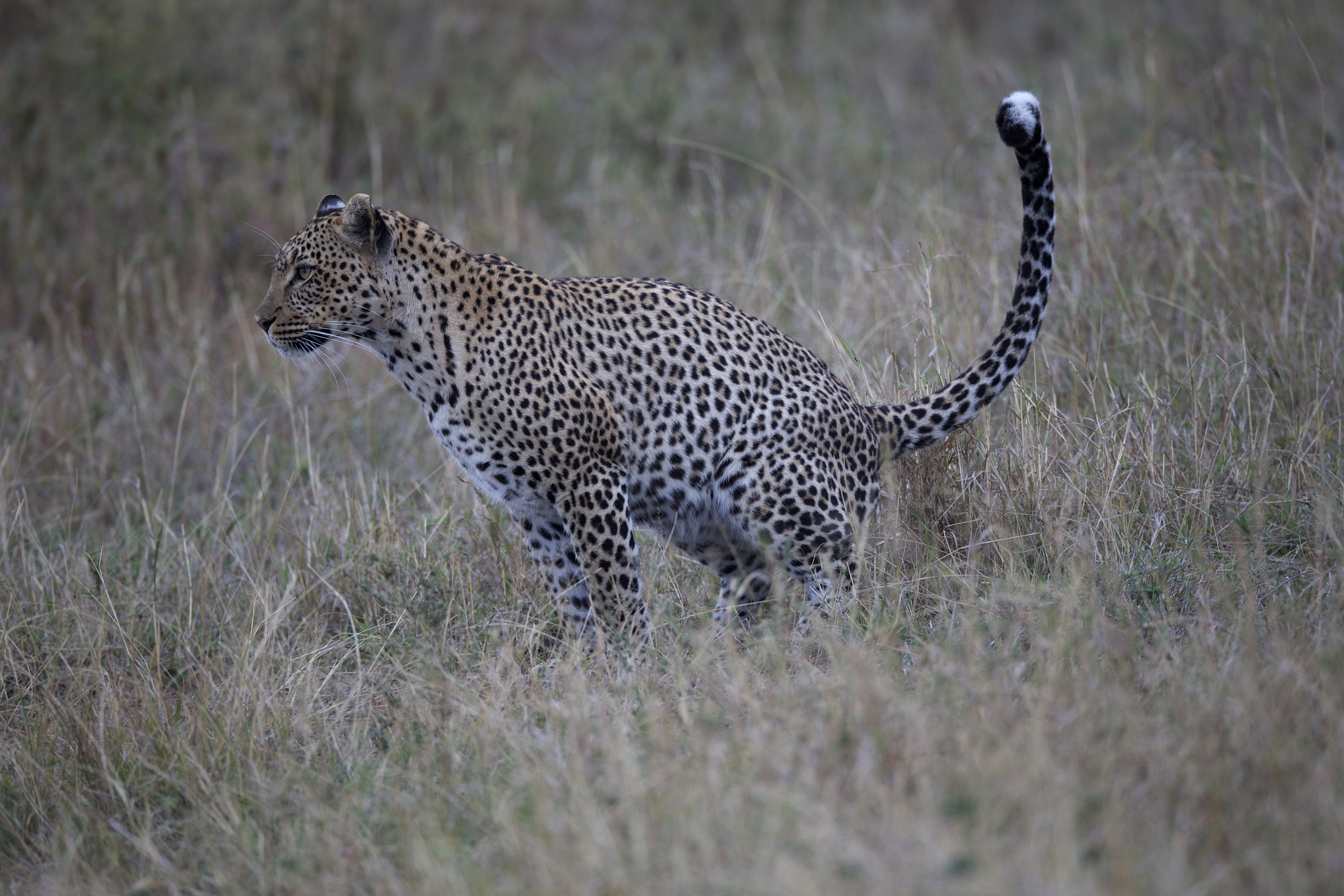 She is probably marking her territory or leaving signals that she is coming into oestrous. Rather different from males marking African Leopard Panthera pardus pardus Central Serengeti 5th. September 2012 CF2P3186